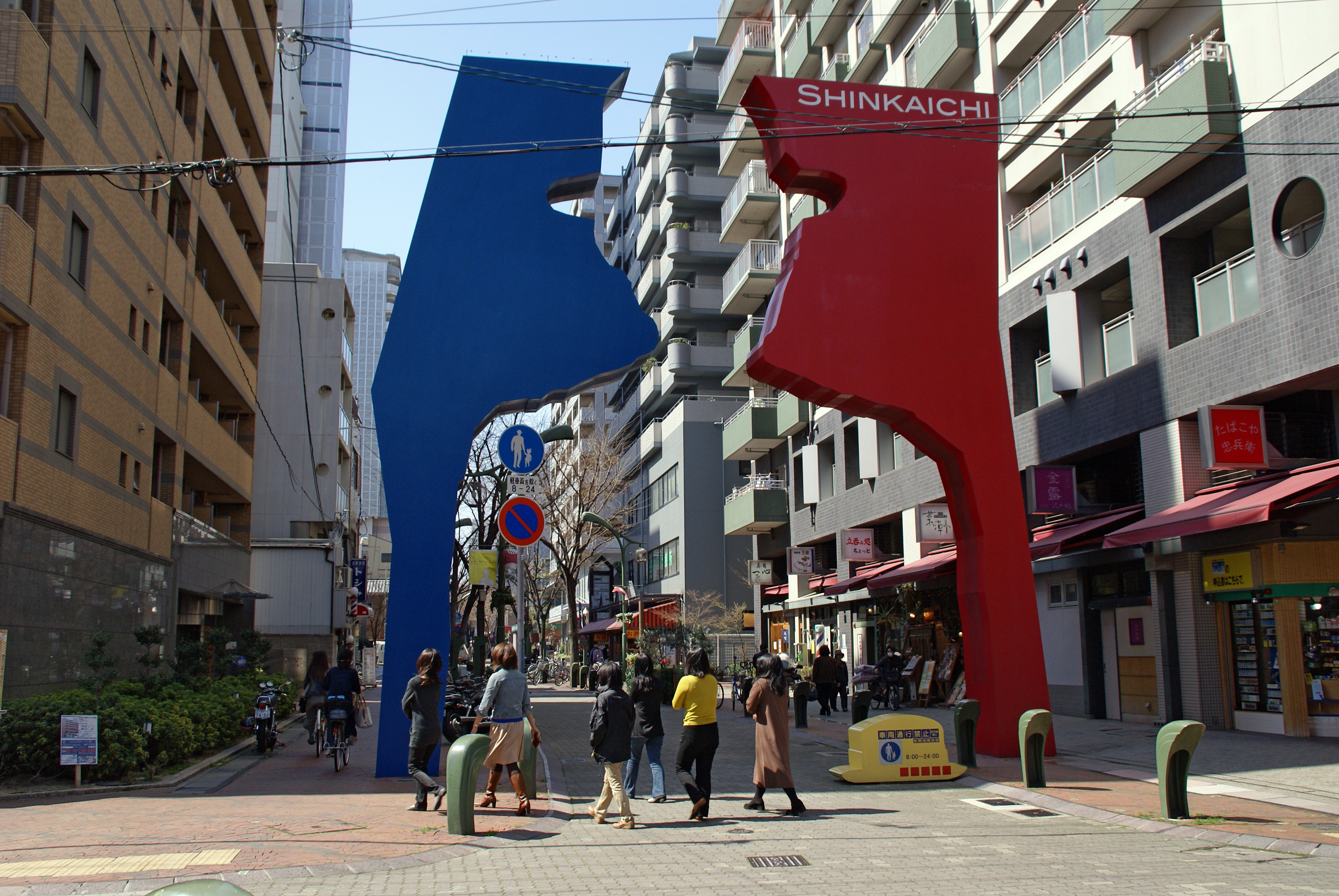 BIG MAN (GATE) in Kobe, Hyogo prefecture, Japan